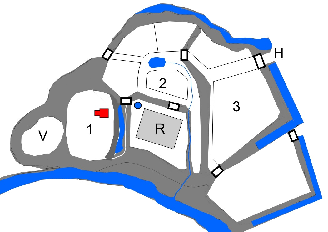 Layout of old Otaki Castle